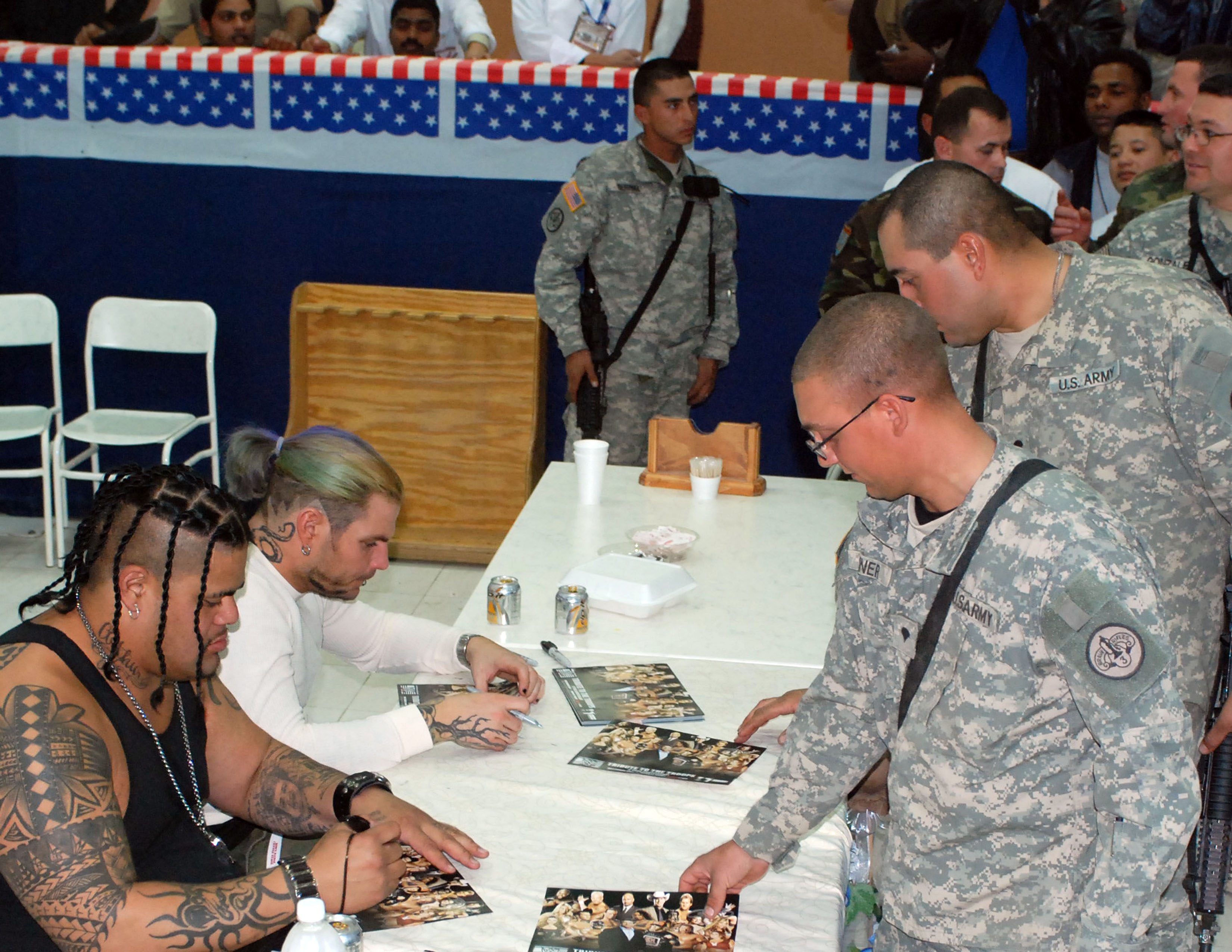 Troopers from the 3d Armored Cavalry Regiment and all personnel living and working on Forward Operating Base Marez, Iraq, received autographs and took photos with WWE superstars such as Umaga (front) and Jeff Hardy, the current Intercontinental Champion, Dec. 6 at the base’s dining facility. The WWE superstars met the troops as part of their annual trip to visit deployed Soldiers.